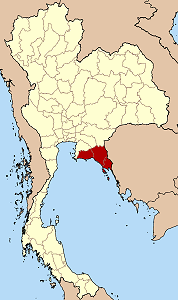 Map of Thailand showing the extent for the Monthon Chanthaburi as of 1915.